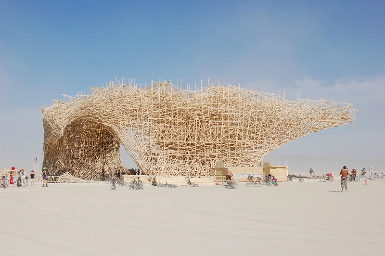 Once a year, tens of thousands of people gather in the Nevada Black Rock desert to celebrate the Burning Man art and music festival. There, they build up a site literally from nothing, focussing on the basic ideas of community, art and self-expression. After one week, they again leave the desert without being allowed to leave a single trace of their presence. In 2007, Arne Quinze and a crew of 25 Belgians, created and installed the most monumental sculpture of the festival.